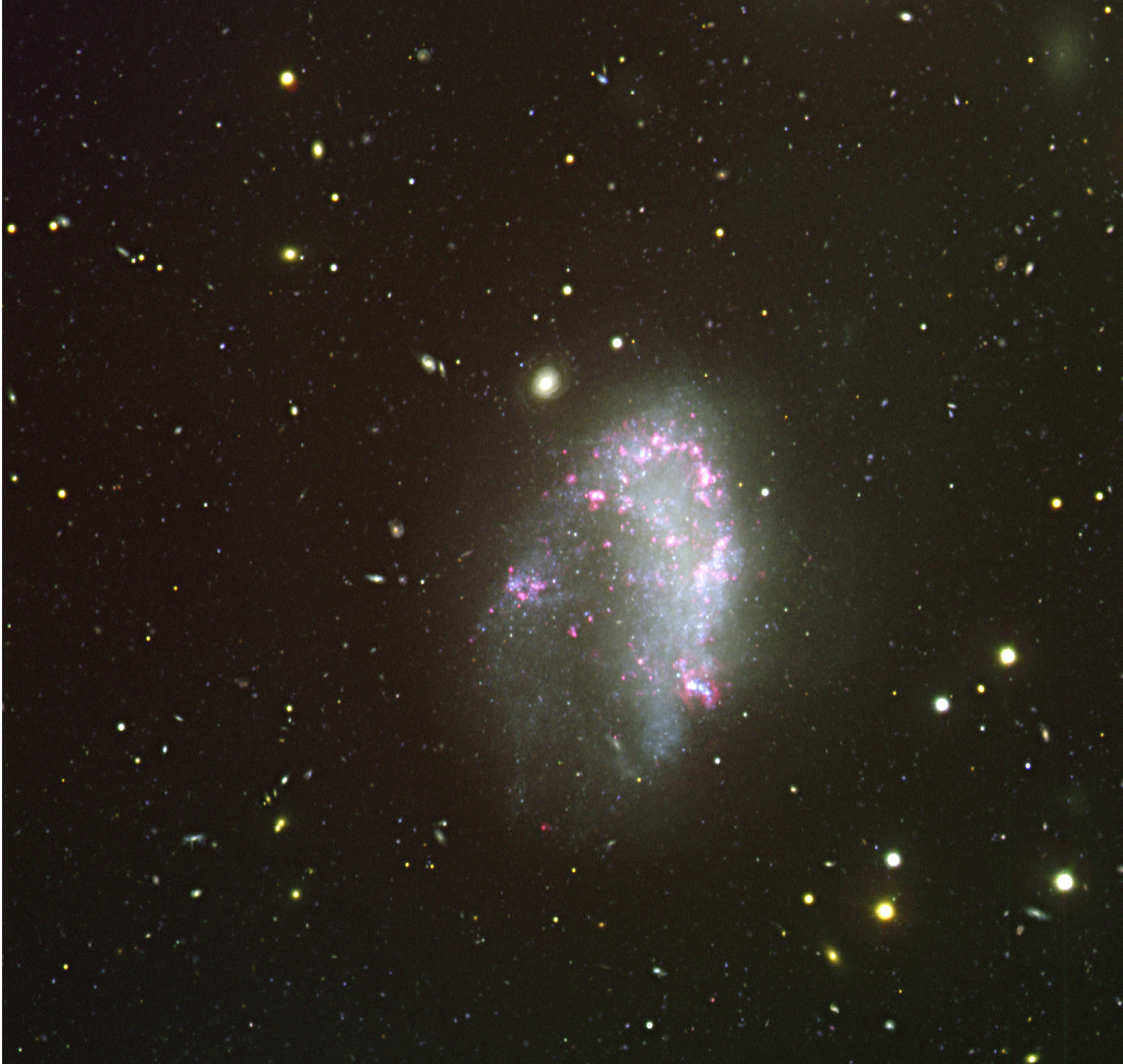 Colour composite image of NGC 1427A, based on observations collected with FORS1 in Service mode for Andreas Reisenegger and his colleagues in November 2002 and January 2003. A very tenuous galaxy is also visible in the upper right corner. For the blue, green and red channels the U, V and H-alpha filters were used, respectively. North is on the left and West is up. The entire field of view of this image is ~ 6.7 x 6.7 arcmin2 which corresponds to ~ 120 x 120 thousand light-years at the Fornax Cluster distance. Henri Boffin (ESO) did the final processing of the image. ID: phot-27c-06 Press Release: ESO 27/06 Long Caption Object: NGC 1427A Telescope: UT1/Antu Instrument: FORS1 Credit: ESO